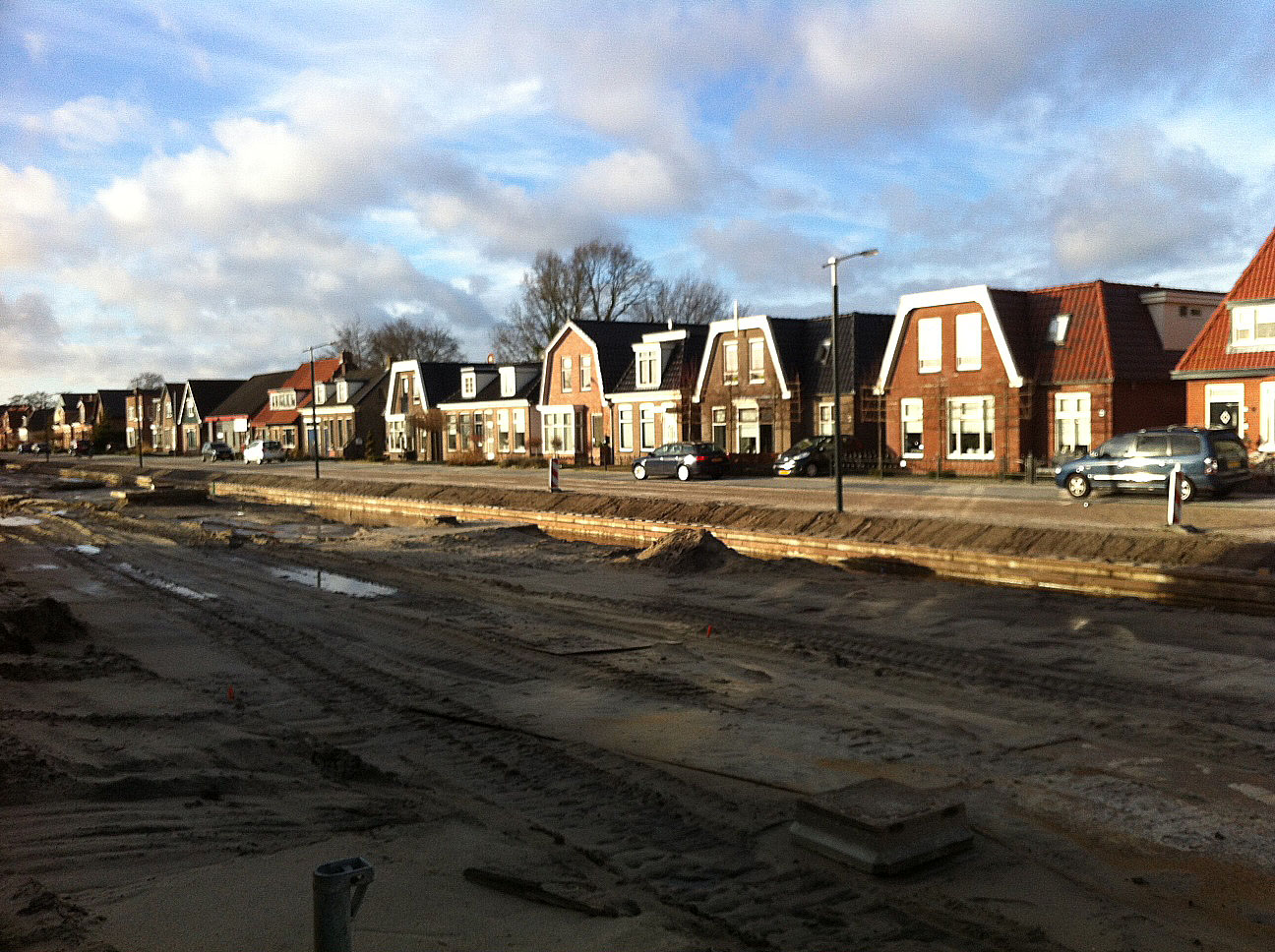 The construction of the Drachtstervaart